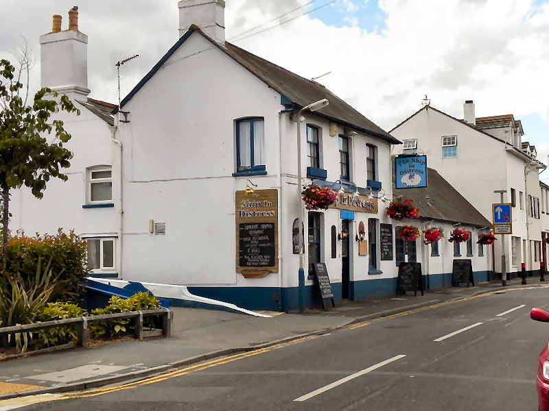 Ship In Distress, a public house in the village of Stanpit in Christchurch, Dorset. The pub was a known haunt of smugglers in the 18th Century.